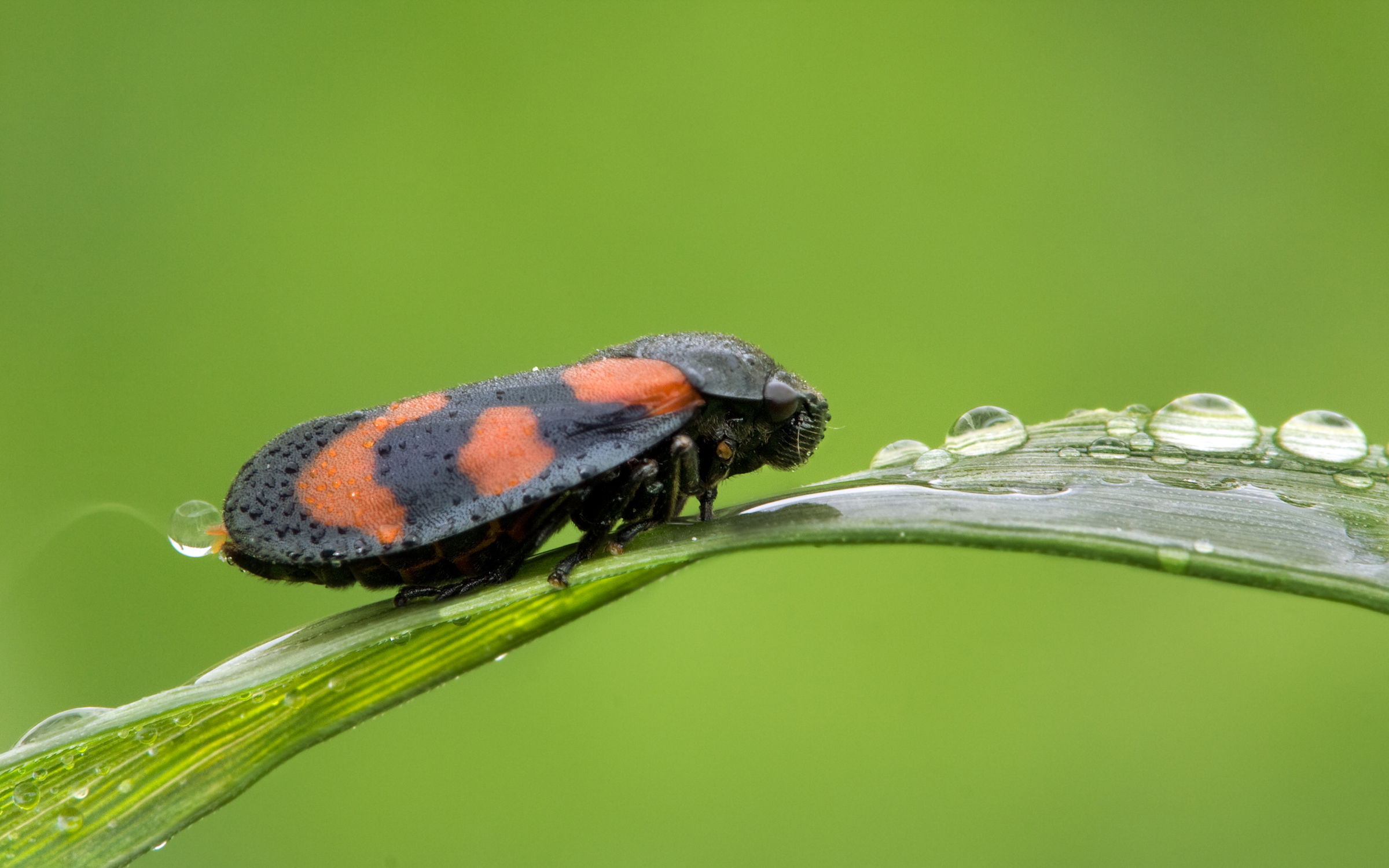 Froghopper(Cercopis vulnerata) The froghoppers, or the superfamily Cercopoidea, are a group of Hemipteran insects, in the suborder Auchenorrhyncha.